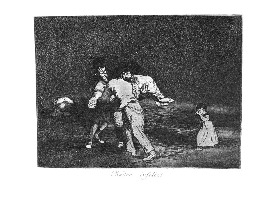 Los Desatres de la Guerra is a set of 80 aquatint prints created by Francisco Goya in the 1810s. Plate 50: Madre infeliz! (Unhappy mother. )